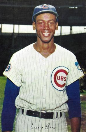 Professional baseball player Ernie Banks